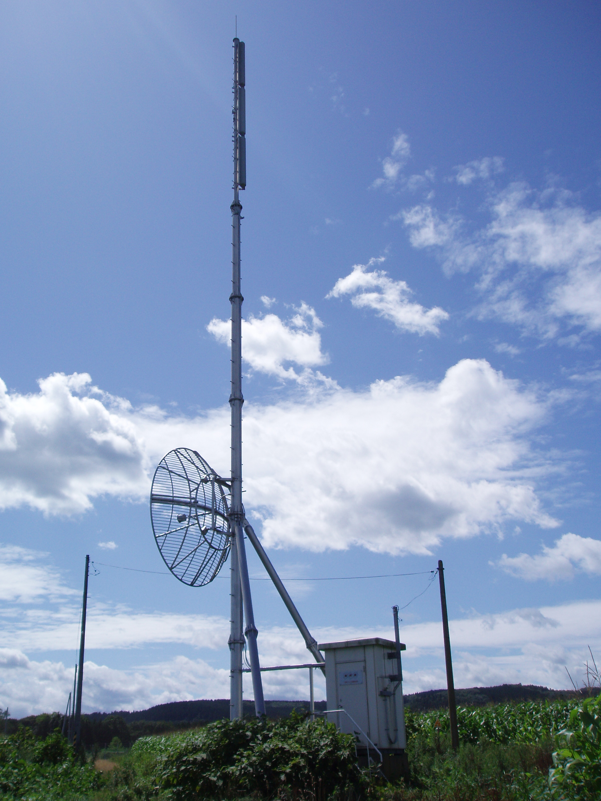 NHK Yakumo Broadcasting Relay Station